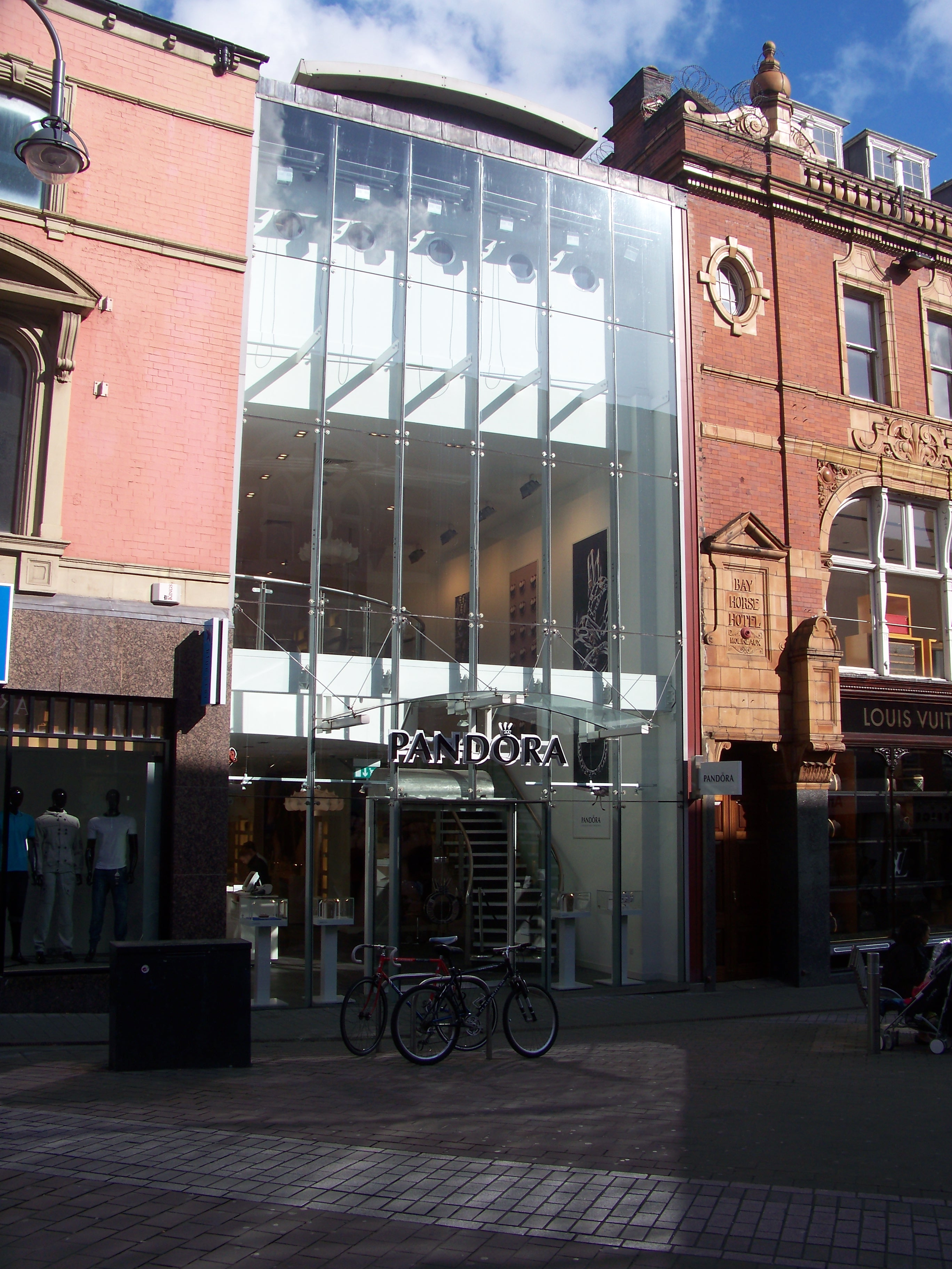 Pandora, a jewellery shop on Briggate in Leeds, West Yorkshire. Taken on the afternoon of Monday the 11th of April 2011.